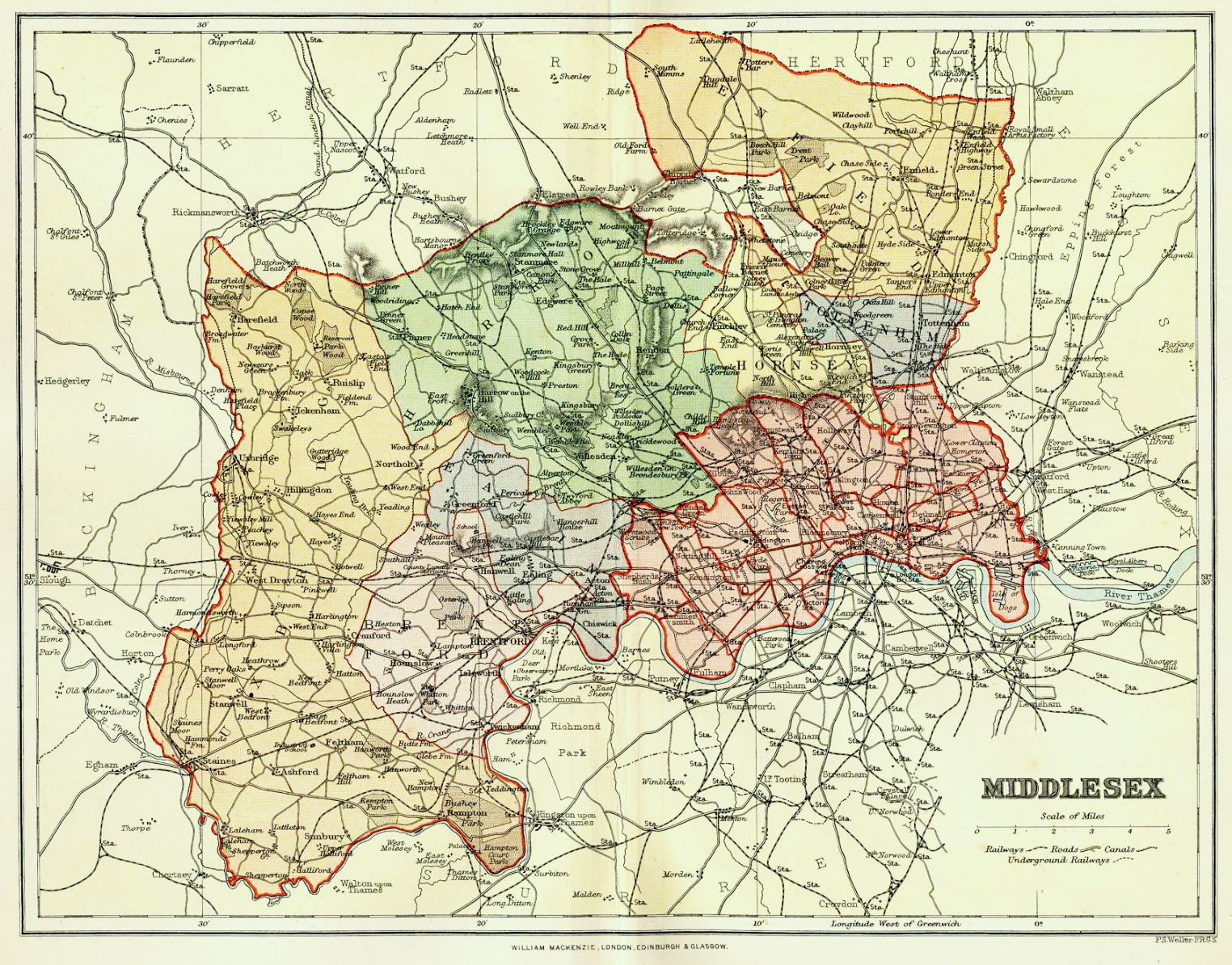 Colour engraving of a map of the County of Middlesex, England, by F. S. Weller published by William Mackenzie in The Comprehensive Gazetteer of England and Wales, circa 1891-95. Includes areas transferred to new County of London in 1889 and areas that remained part of the administrative county until its abolition in 1965.